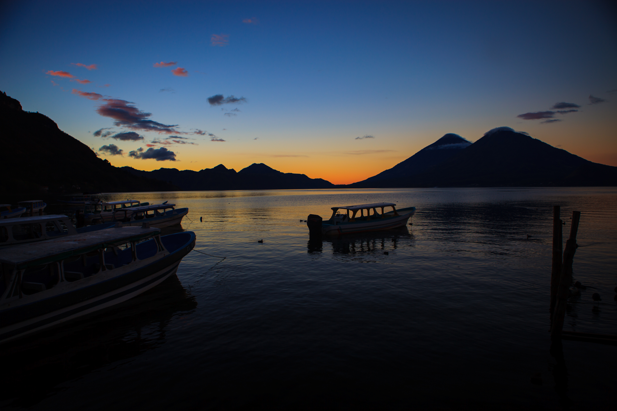 sunrise on Lake Atitlan